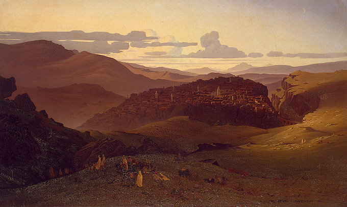 Vue de la Ville de Constantine, painting by French Orientalist Charles-Théodore Frère, oil on canvas, 98 x 162 cm. Hermitage Museum, St Petersburg.